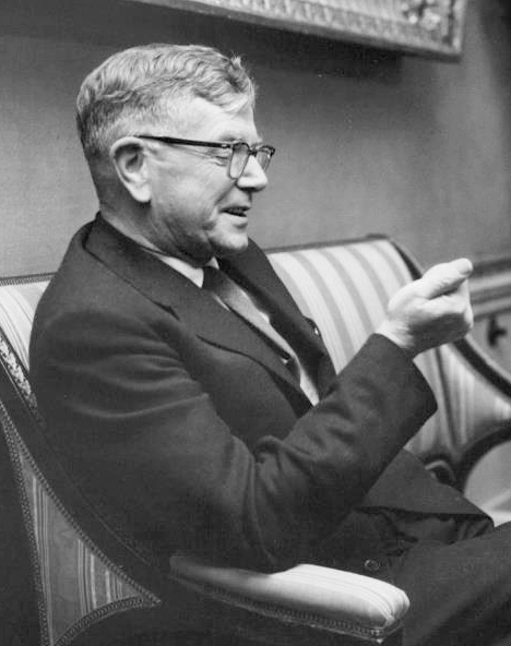 Nobel laureate Frank Macfarlane Burnet at the press office at the Grand Hotel, Stockholm